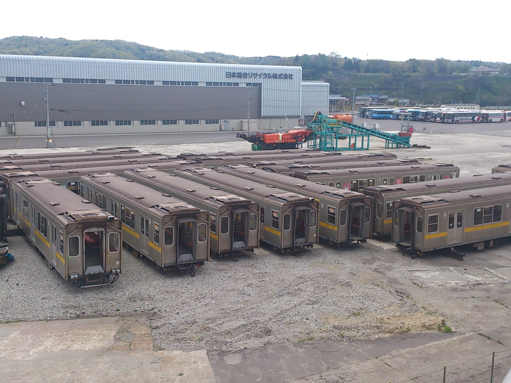 Withdrawn former Nagoya Municipal Subway 5000 series EMU cars at Nihon Sogou Recycle in Takaoka, Toyama Prefecture for scrapping and recycling